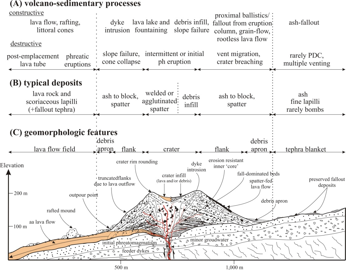 Schematic cross-section through a scoria cone or cinder cone, showing the typical volcano-sedimentary processes, deposits and geomorphological features. (Abbreviation: PDC = pyroclastic density current).